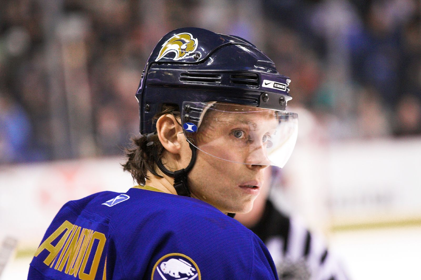 Maxim Afinogenov, Ice hockey player of the Buffalo Sabres